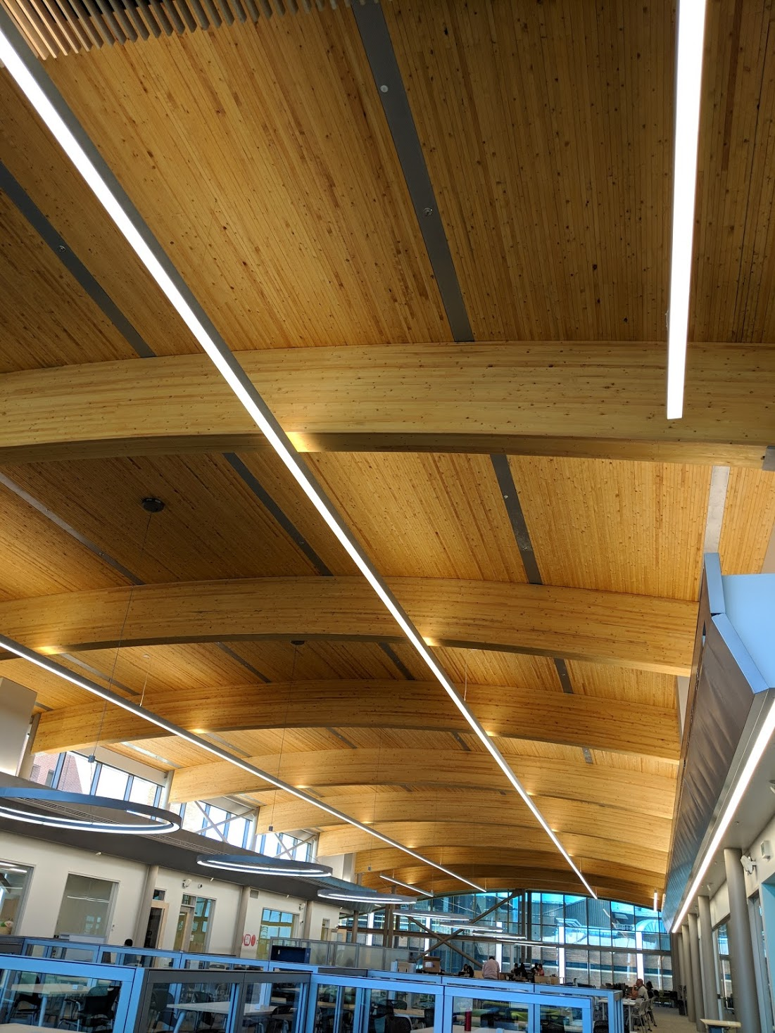 The open concept AC Library, opened June 2018